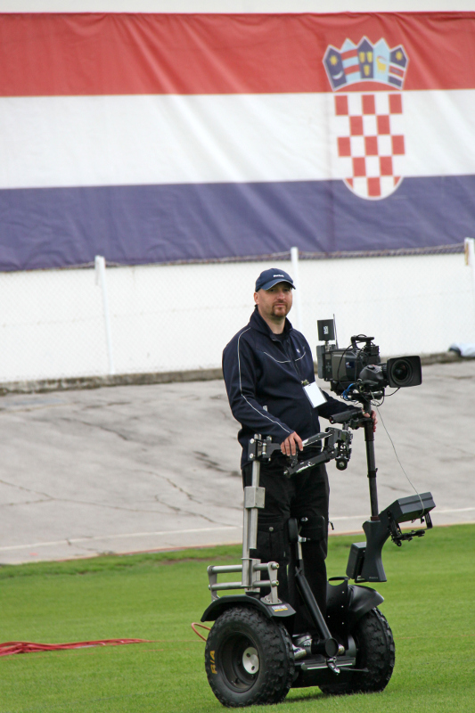 Cameraman on a Segway with a Steadicam at the 20th anniversary of the Croatian armed forces